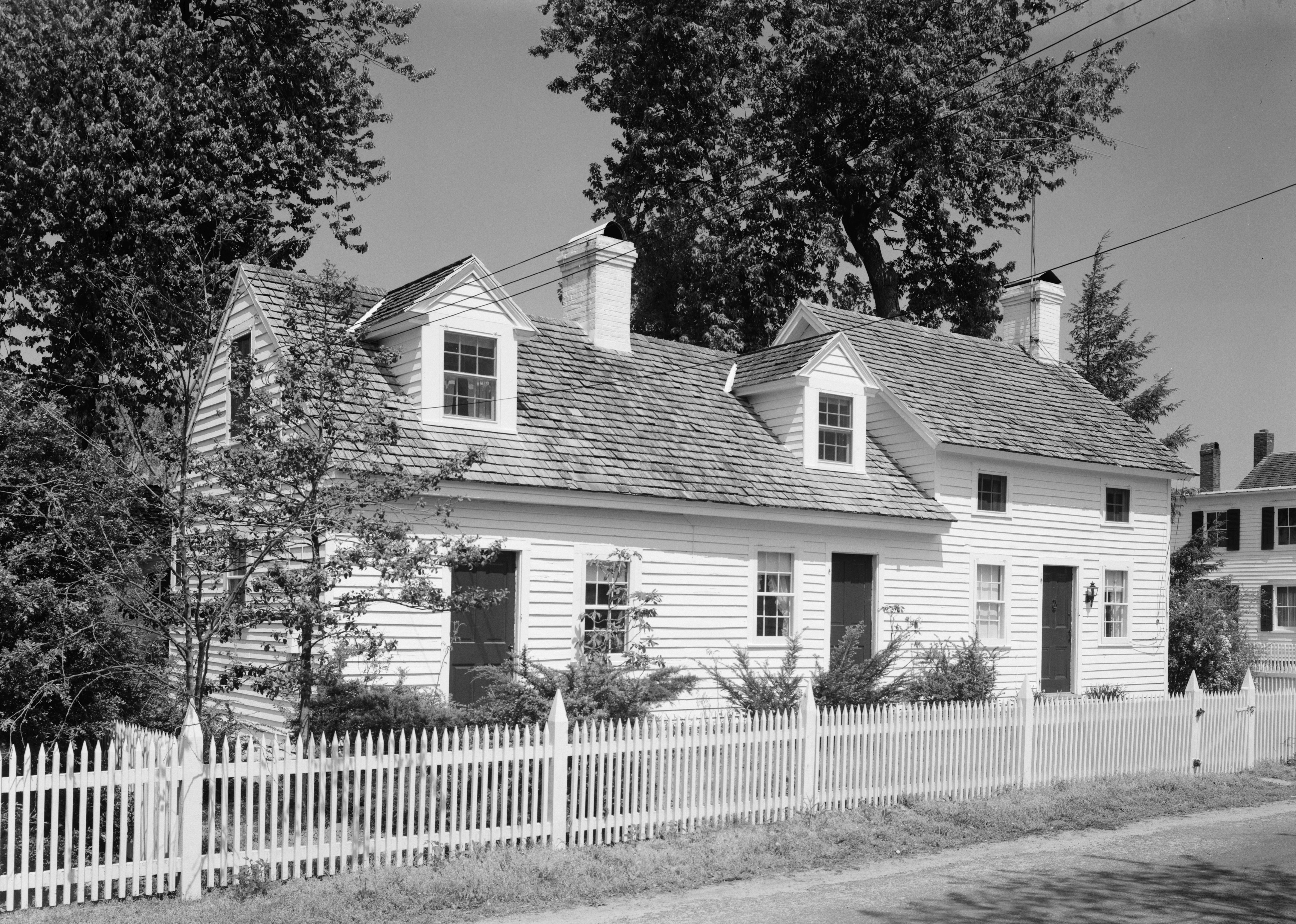 Historic American Buildings Survey Cortlandt Van Dyke Hubbard, Photographer June 1960 FRONT (SOUTH) ELEVATION SHOWING ORIGINAL ONE STORY BUILDING - Ship-Carpenter's House, Main Street, Bethel, Sussex County, DE